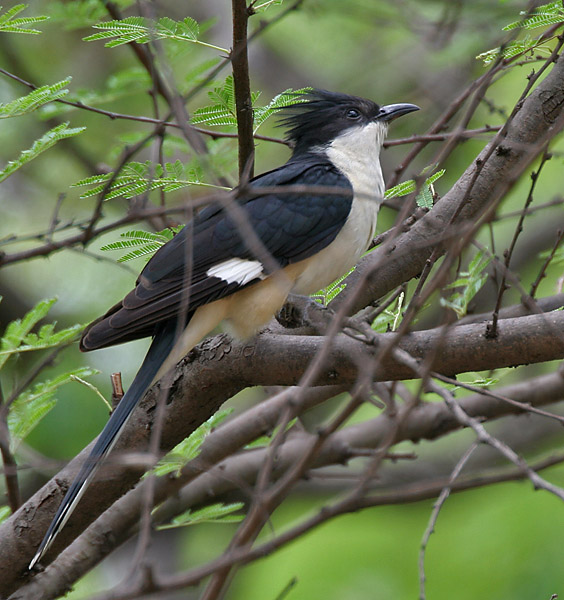 Pied Cuckoo Clamator jacobinus in Hyderabad , India.